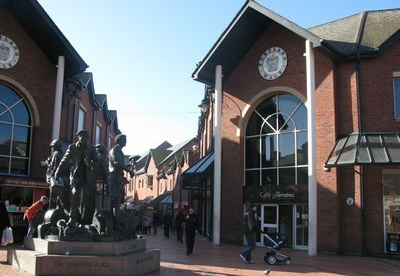 Portland Walk Shopping Centre, Barrow-in-Furness, England